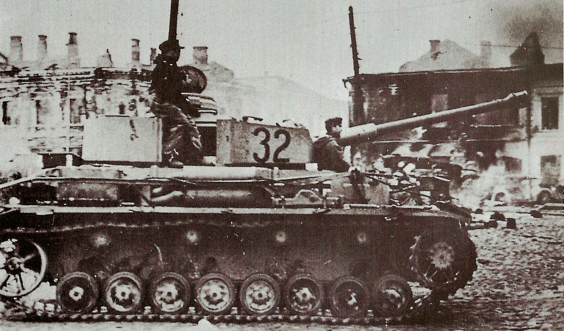 German tanks in action (battle of Zhitomir, dicember 1943)